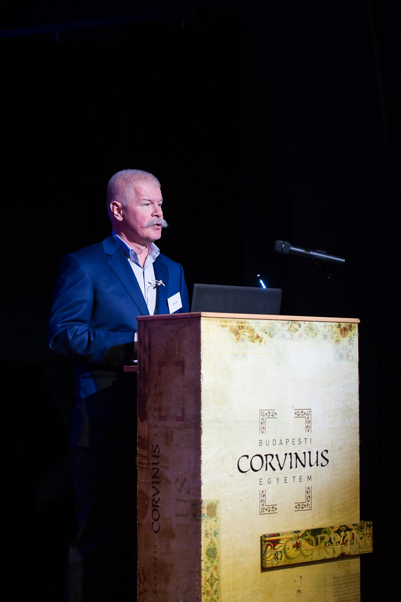 Head of Project ConNext 2050, János Csák holds a lecture on the international conference of SFC (March 23, Budapest)